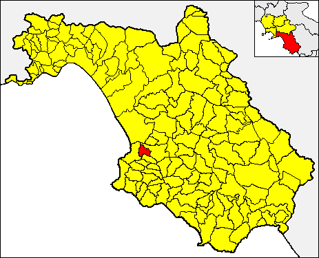 Locator map of the municipality of Ogliastro Cilento (red) within the Province of Salerno